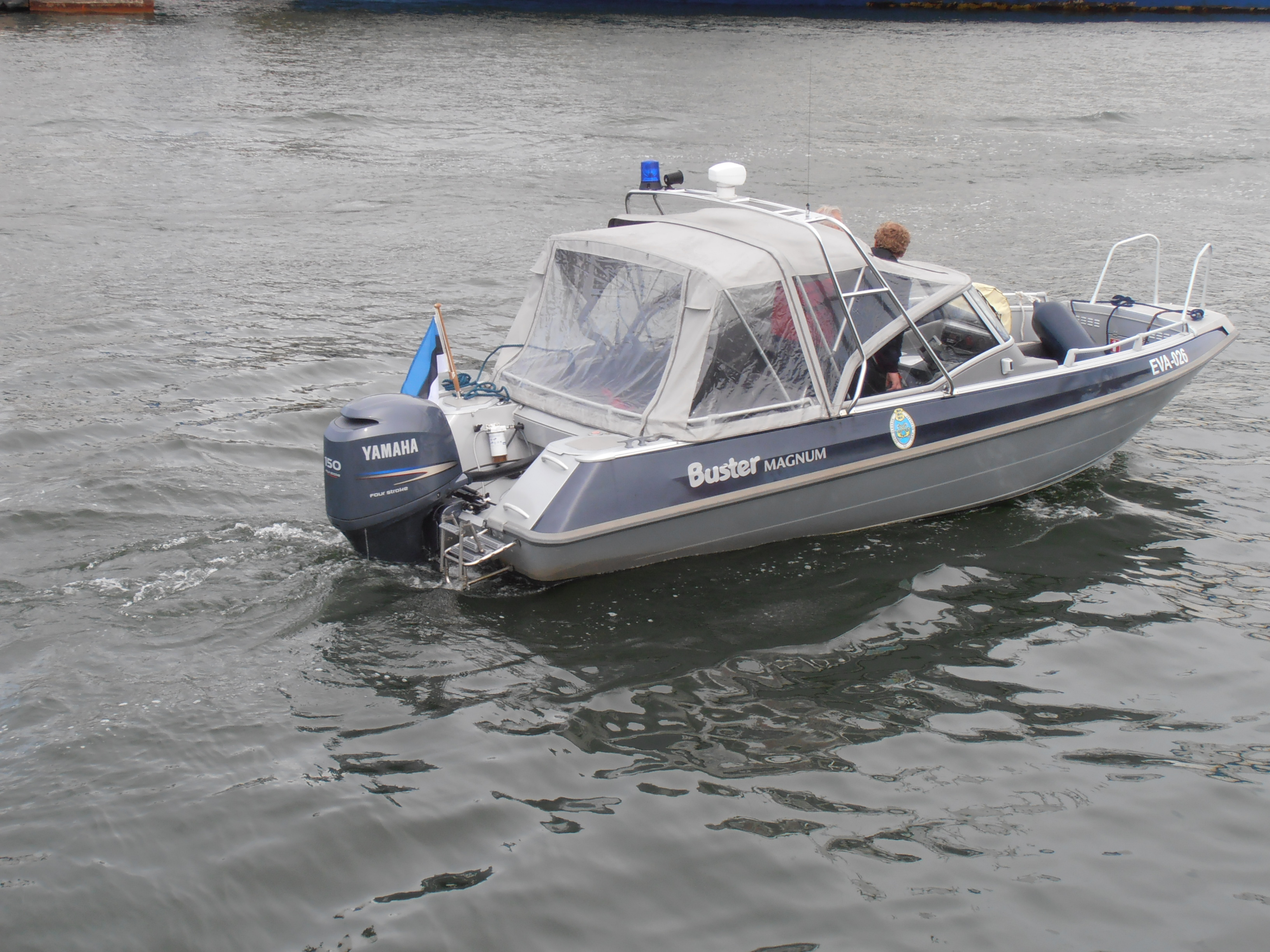 EVA-026 in Port of Tallinn 14 July 2012